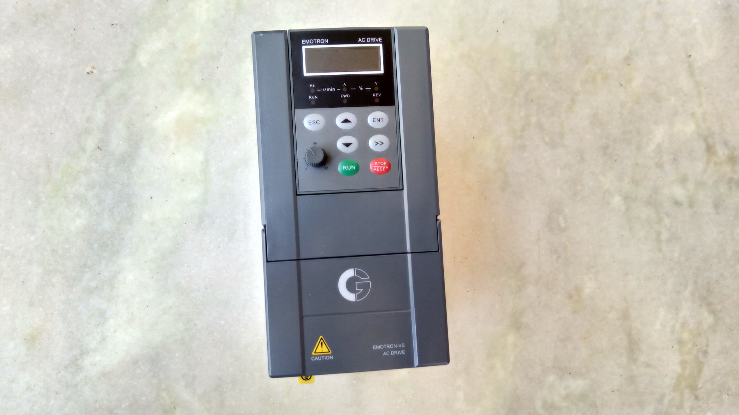 Variable Frequency Drive (VFD)